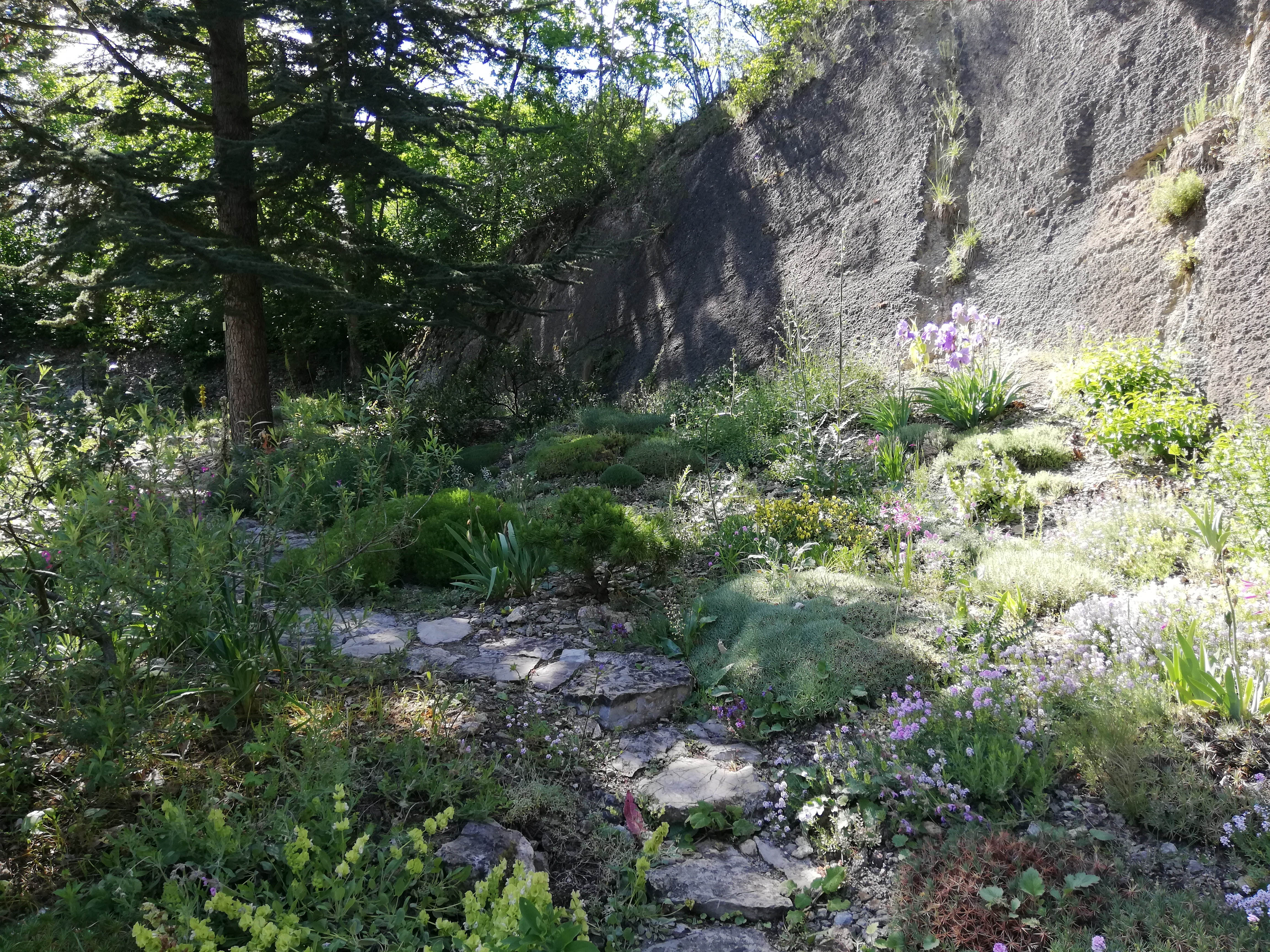 Internal area of The Rock Garden in Hlubočepy (Prague, Czech republic)